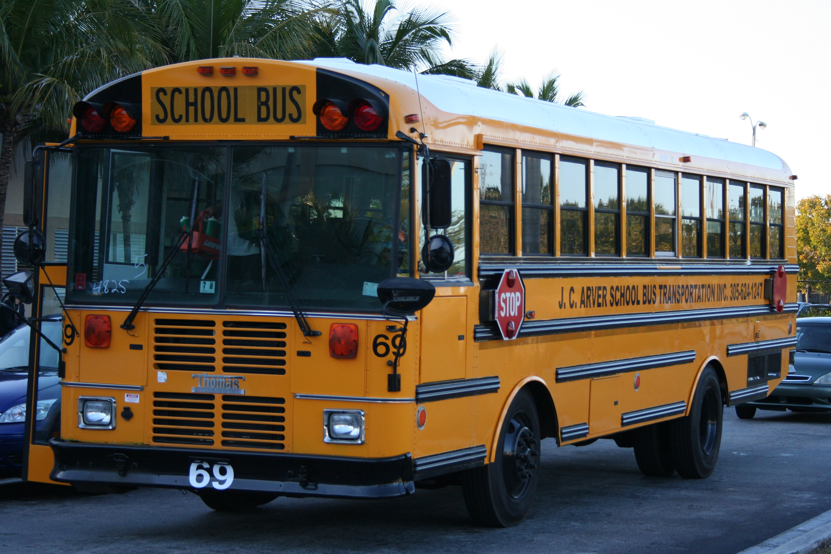 School bus photographed in Country Club, Florida. Bus is a 1990s Thomas Built Buses Saf-T-Liner MVP EF with a Thomas chassis.